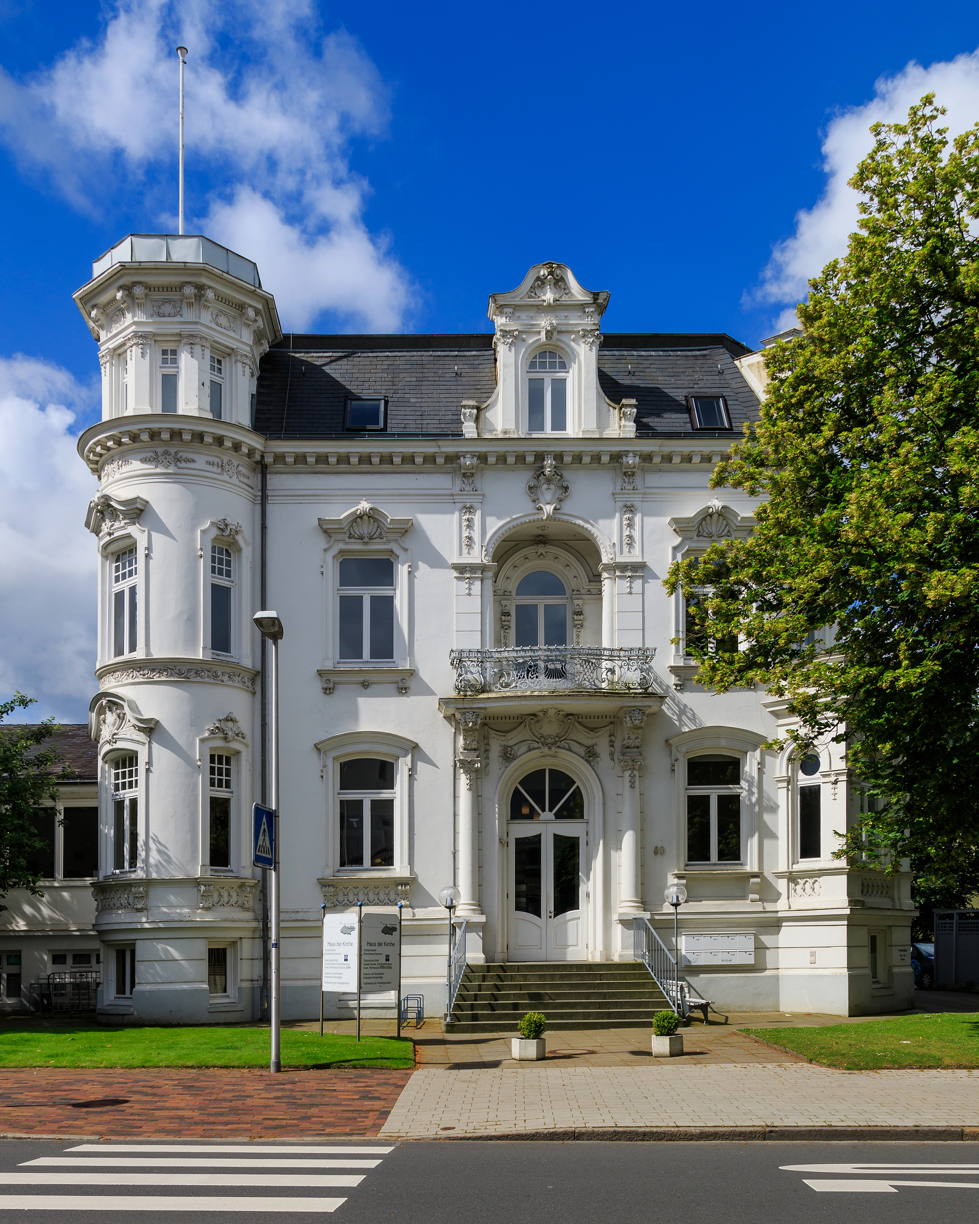 Listed residential building Marienstraße 50 in Cuxhaven, Germany